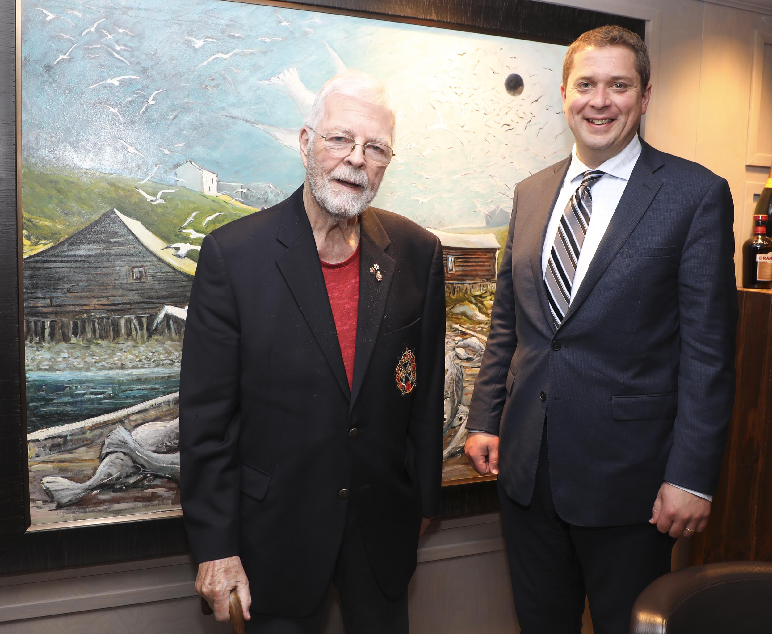 It’s been a busy day in St. John’s! We had fun visiting Signal Hill - what a view! Also great to meet Barbara and Peggy, who were visiting from Ontario. Plus, had a chance to be on NTV News with Lynn Burry, where I talked about how our Conservative policies can improve the lives of Canadians everywhere. This afternoon it was a true pleasure to meet John Crosbie. We had lunch and a great chat about politics in Newfoundland and Labrador, John's vast experience, and the future of our party. And finally this evening, Jill and I received a very warm welcome at dinner with Paul Davis, Cheryl, and a number of friends and supporters in St. John's - thank you all!